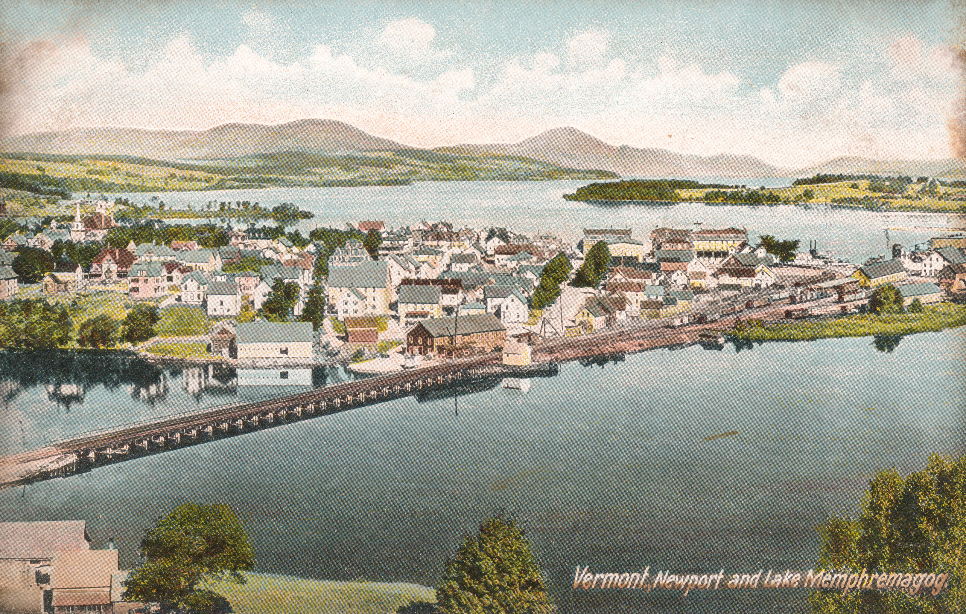 An early postcard of Newport, Vermont looking north towards Lake Memphremagog.